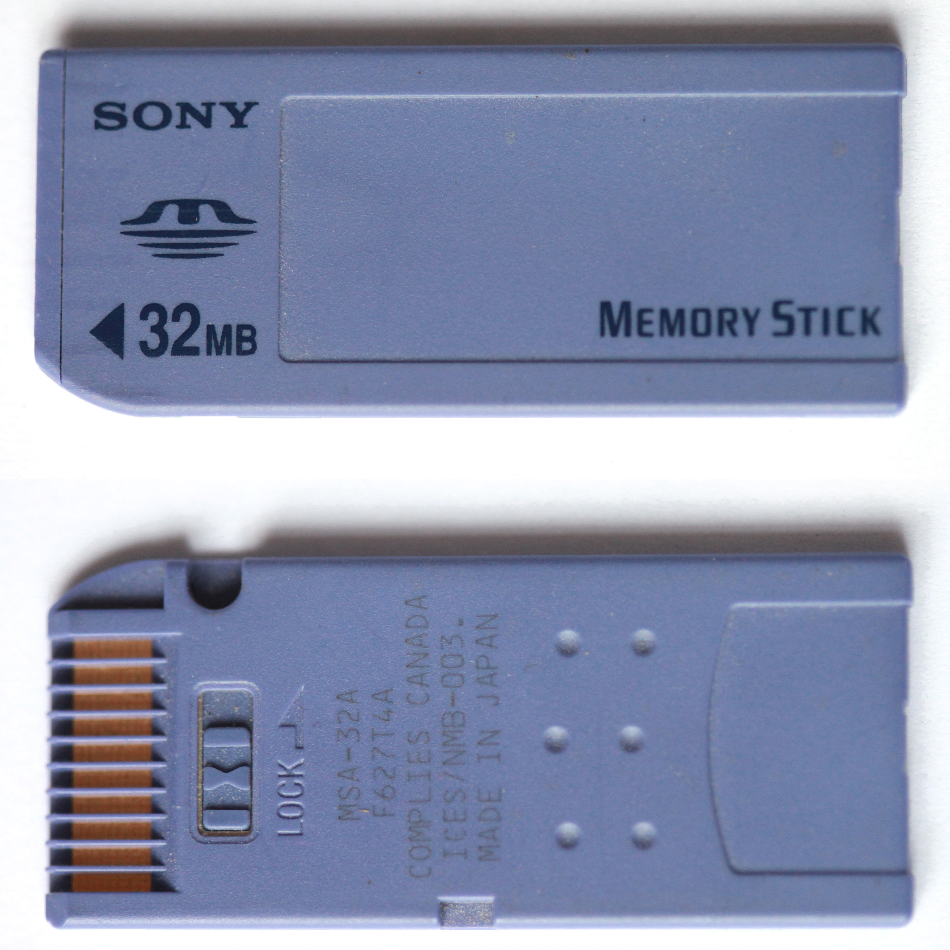 Front- and rear side of a memory stick from Sony with 32 MByte.